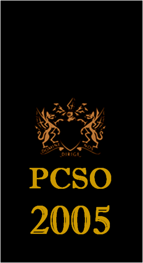 Example of a uniform epaulette worn by a City of London officer holding the rank of PCSO